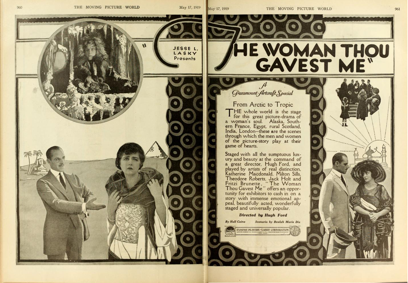 Advertisement in Moving Picture World, May 1919 for the film The Woman Thou Gavest Me (1919)